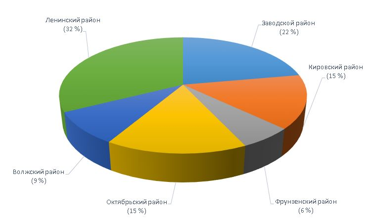 Saratov population by districts 2013